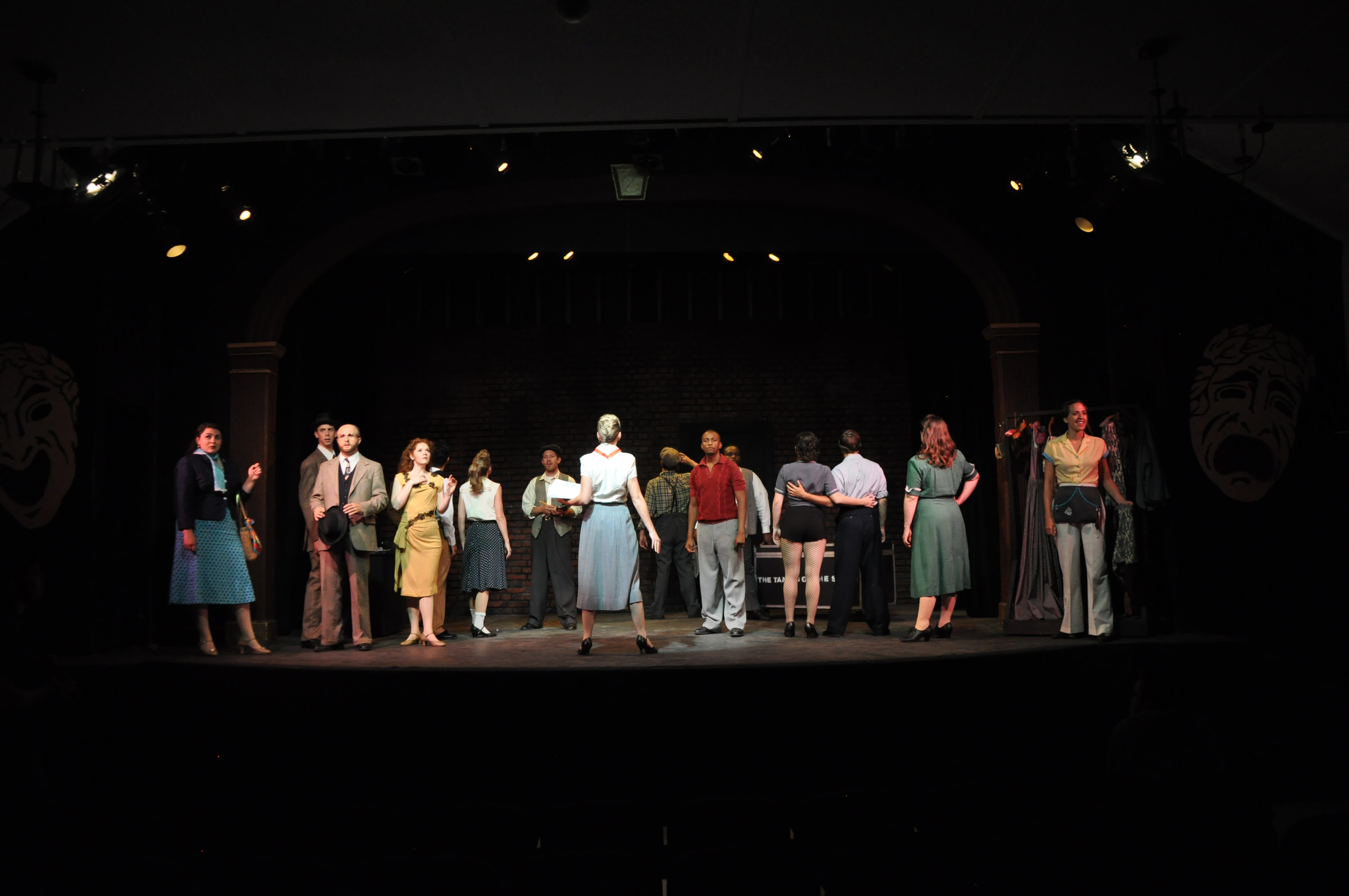 2014 production of the Cole Porter musical KISS ME KATE. Directed by Mary O'Brady Musical Direction by Phil Rittner Choreography by Kyle Brand Scene Design by Andrew Sierszyn Lighting design by Zach Weeks Sound Design by Garrett Hood Prop Design by James Thrash Monomoy Theatre 776 Main Street, Chatham, MA Artistic Director Alan Rust Guest Artists: Alan Rust, Terry Caza, Caitlin Maloney, Kyle Brand, and Chris Hendricks.